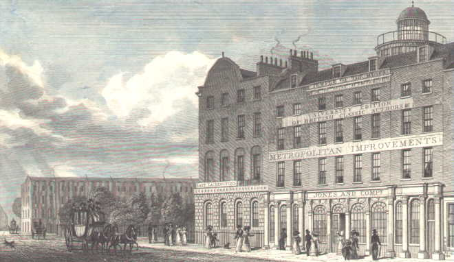 Exterior view of the Jones & Co bookselling premises in Finsbury Square, London, which were known as "The Temple of the Muses", a quite remarkable establishment begun by James Lackington and sold to Jones & Co... engraving, color tinted.